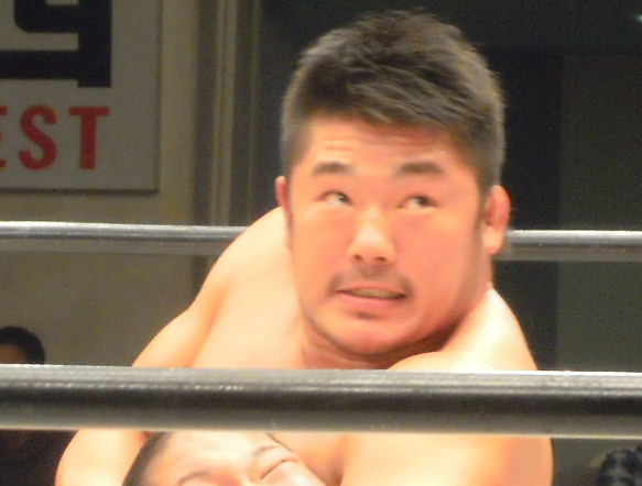 Japanese professional wrestler,Shuhei Taniguchi on Dec 31 2010.